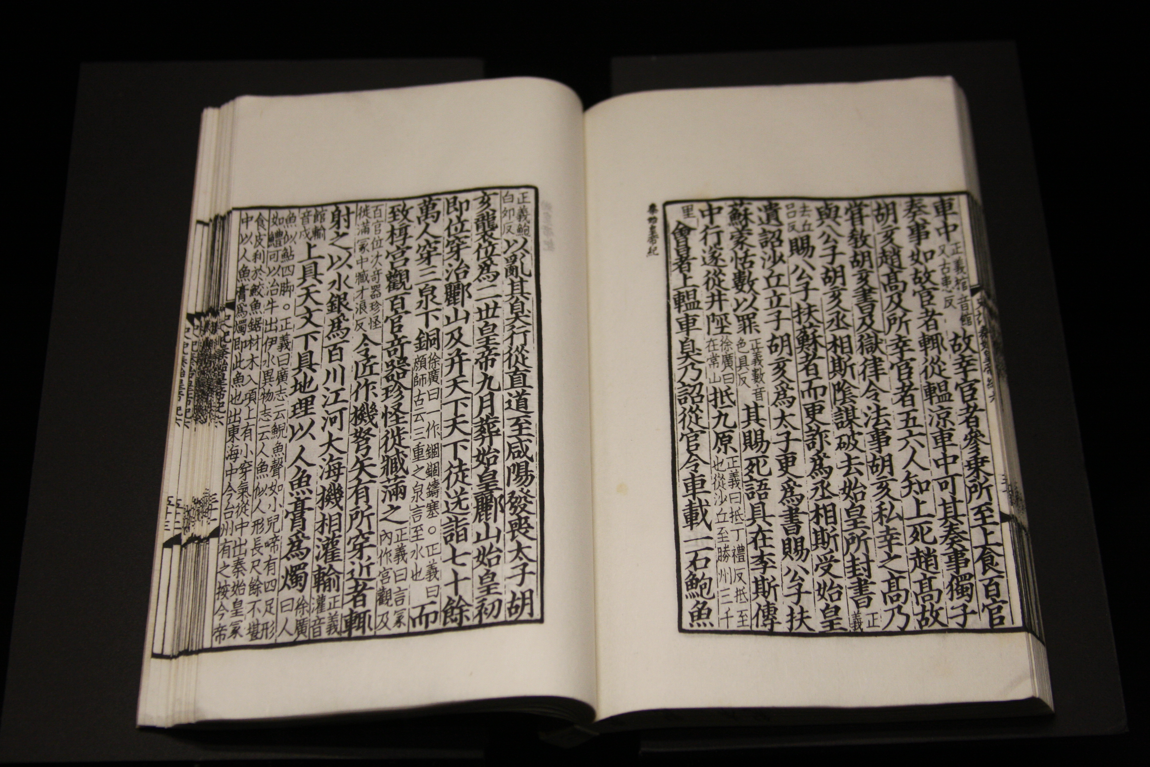 The Annals of the First Emperor of the Qin (Dynasty). Reprint, here chapter 6 - Description of the tomb of the First Emperor. Reprint in Östasiatiska Museet, Stockholm.